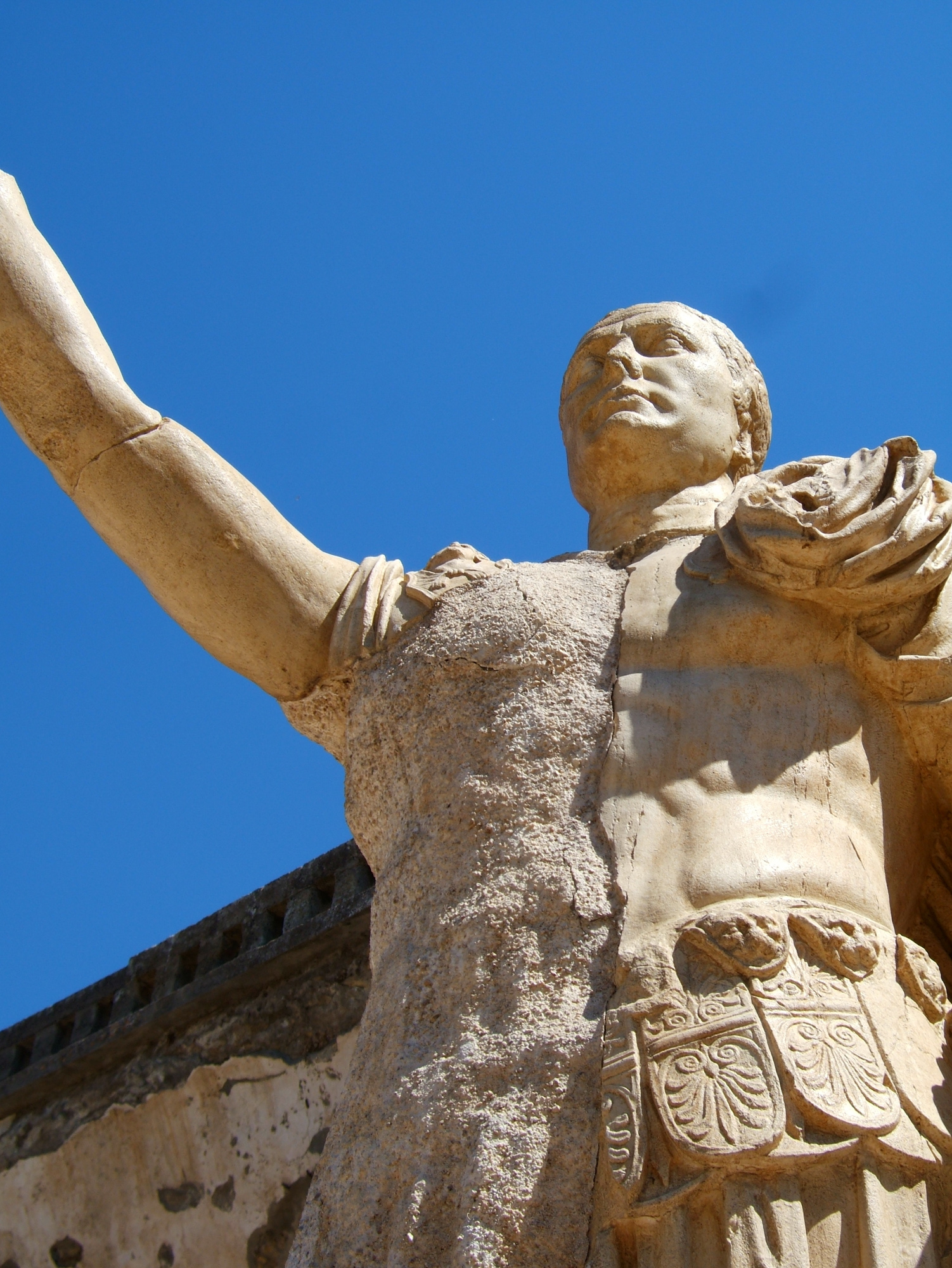 The statue was located on the terrace at the entrance of the Suburban Baths. head was found 65 years ago by Amedeo Maiuri. The body was found 40 years after.